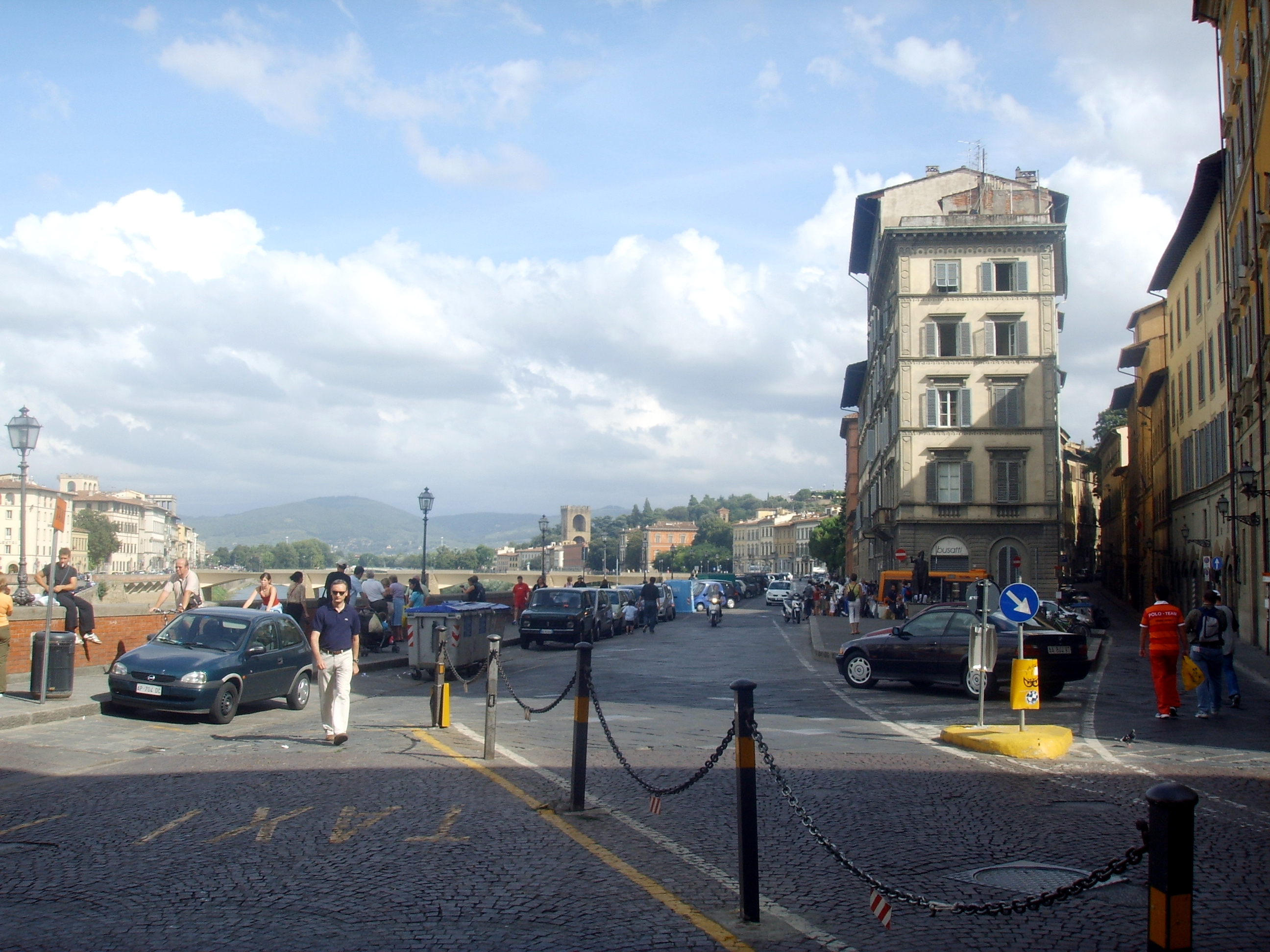 Lungarno view in Florence, italy